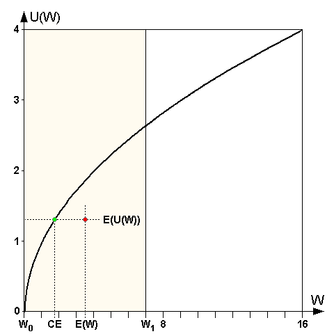 Risk aversion, type 1, case 1